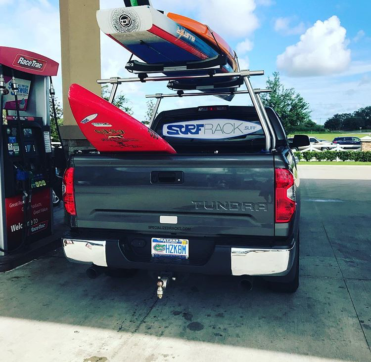 Roof Rack, Truck Rack, Surf Rack